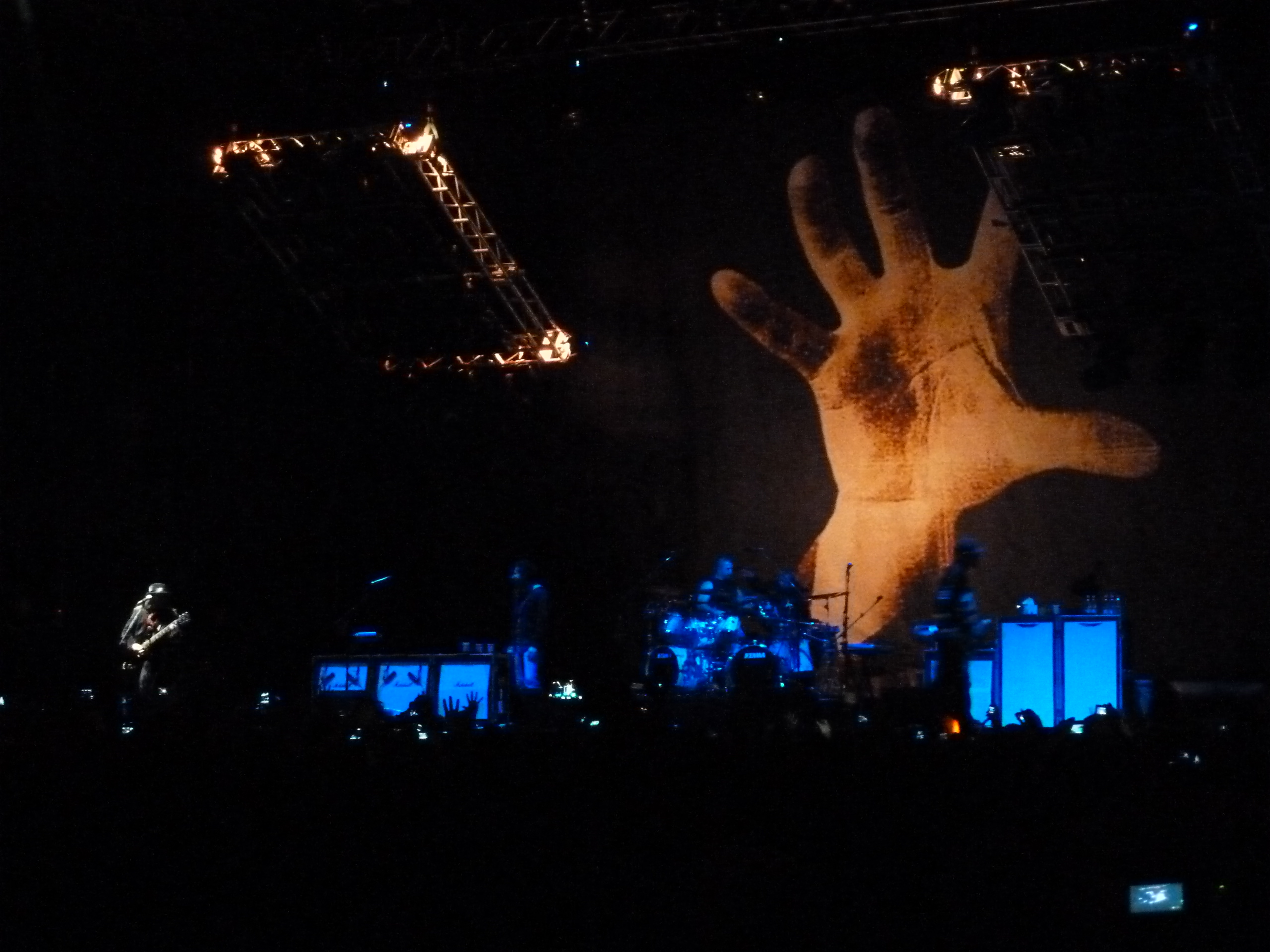 System of a Down performing in Chile in 2011. The backdrop shows John Heartfield's propaganda poster "5 Finger hat die Hand. Mit 5 packst Du den Feind!", which was used as the cover art for their debut album back in 1998.